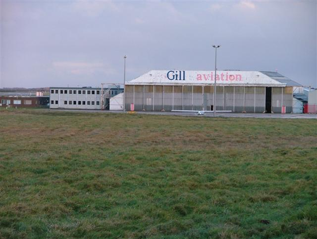 Aircraft Hangar, Newcastle Airport.